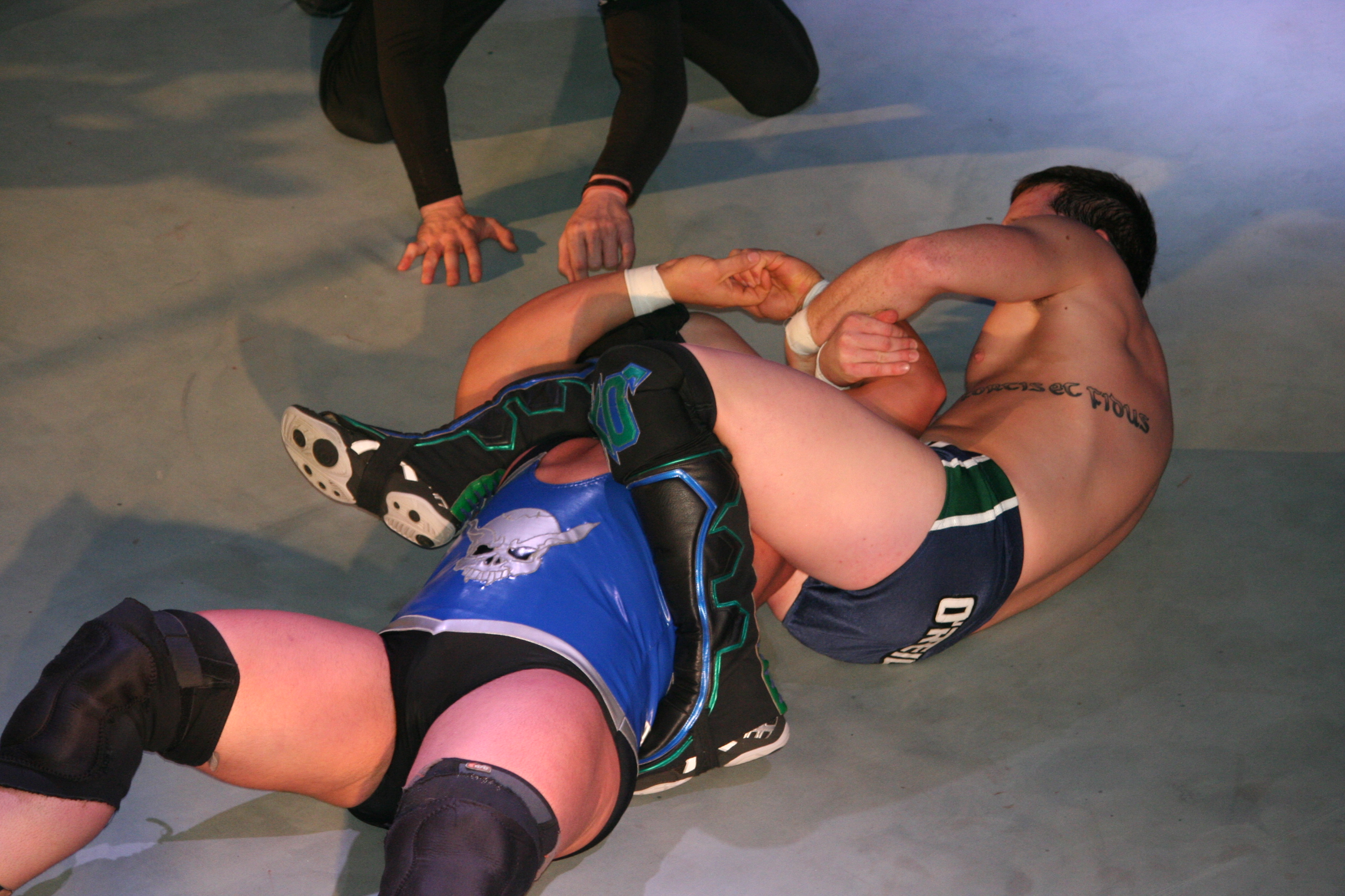 Kyle O'Reilly with a submission armbar on Michael Elgin.